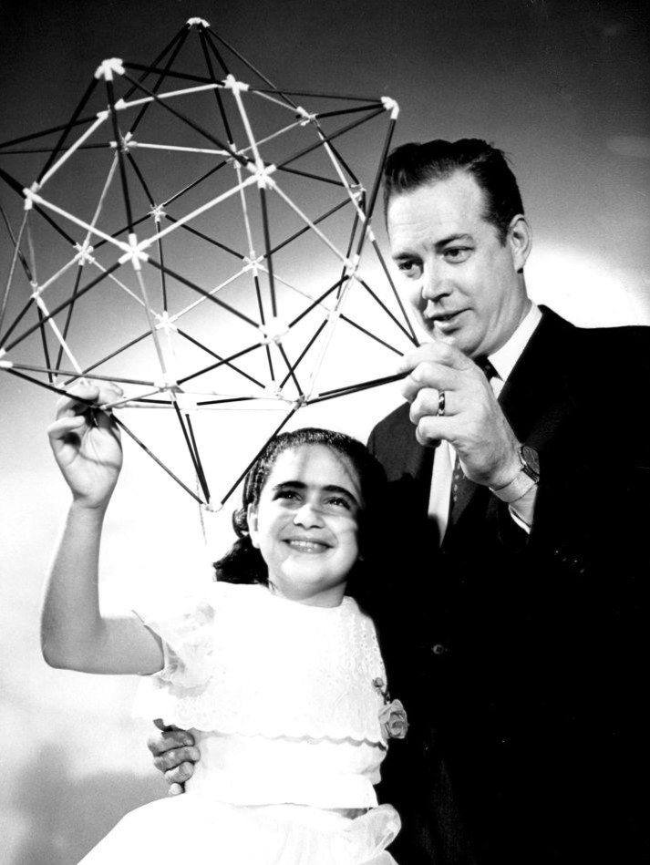 Photo of Hugh Downs and his daughter, Deirdre, from a television program World Wide 60.